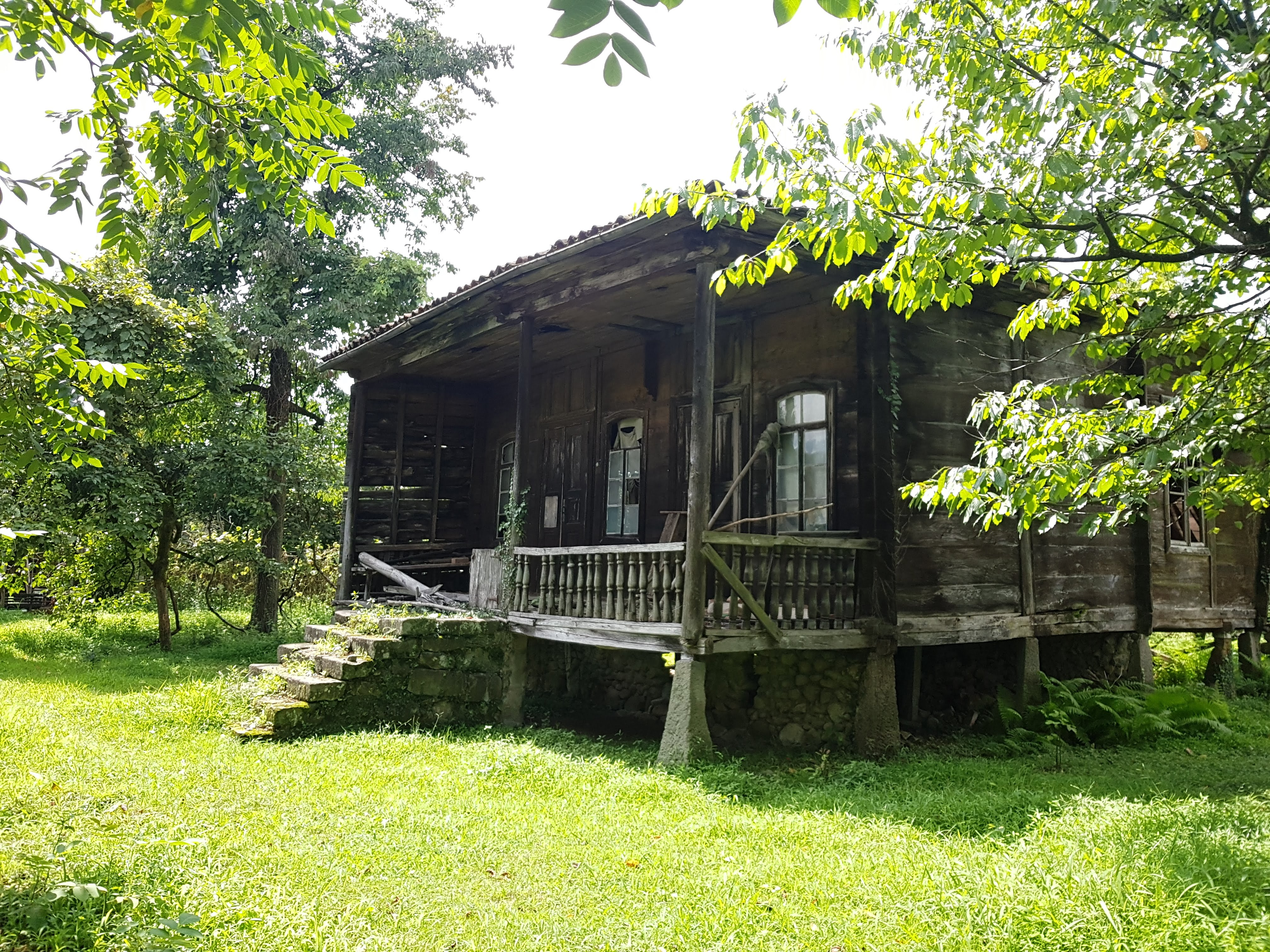 Philipp Makharadze House